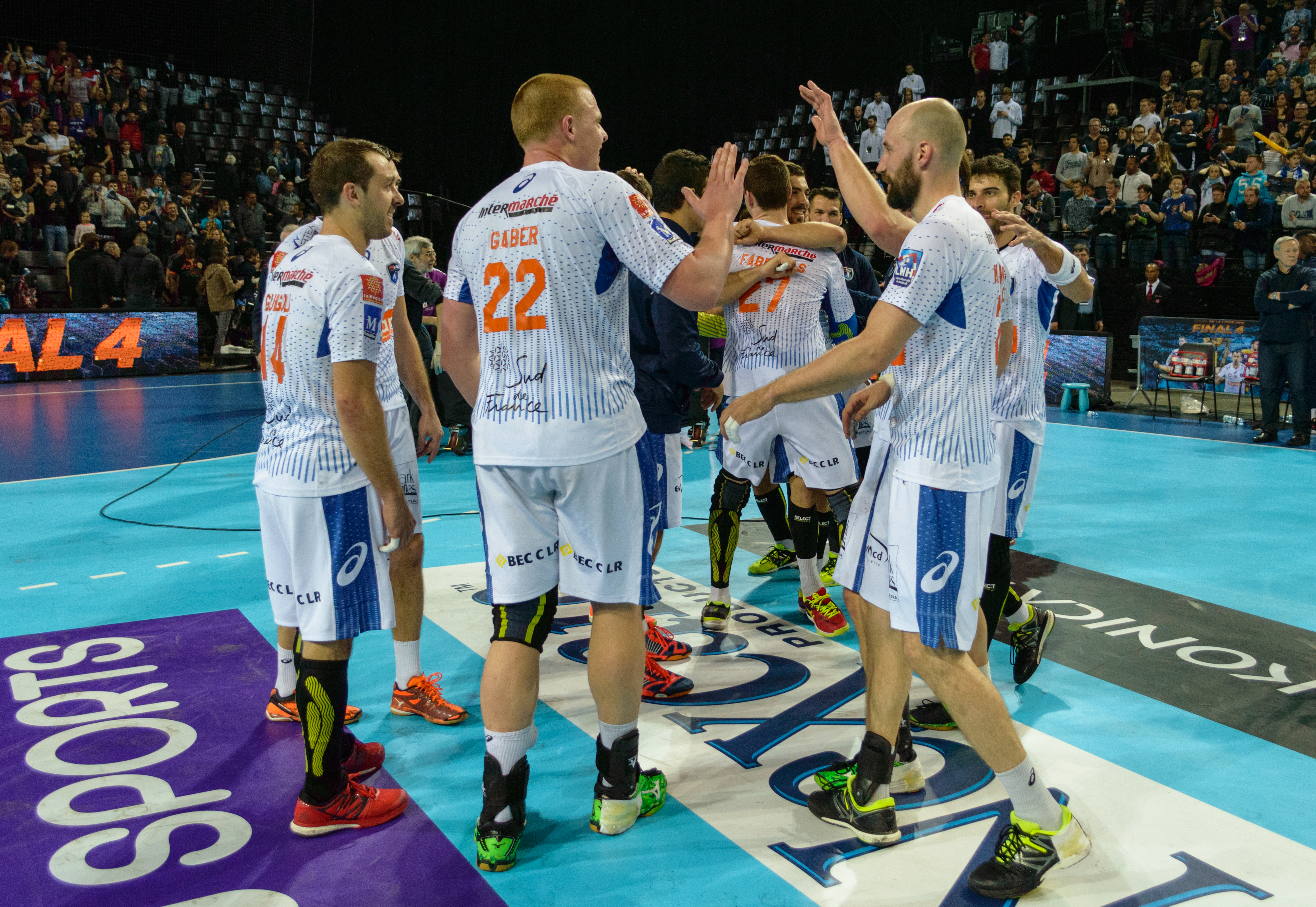 Handball League final between Montpellier (MHB) and Paris (PSG) at the Arena hall.